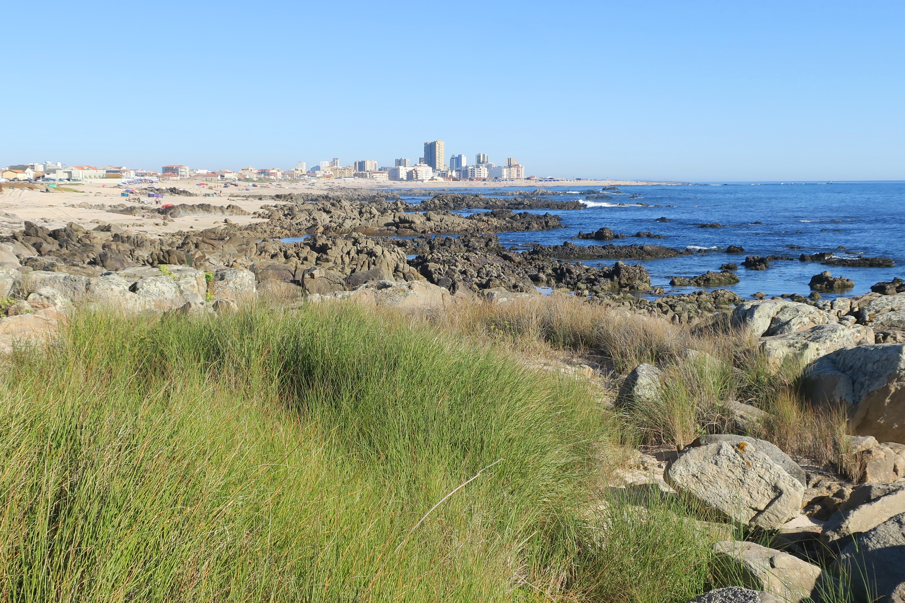 Quião beach, Povoa de Varzim, Portugal